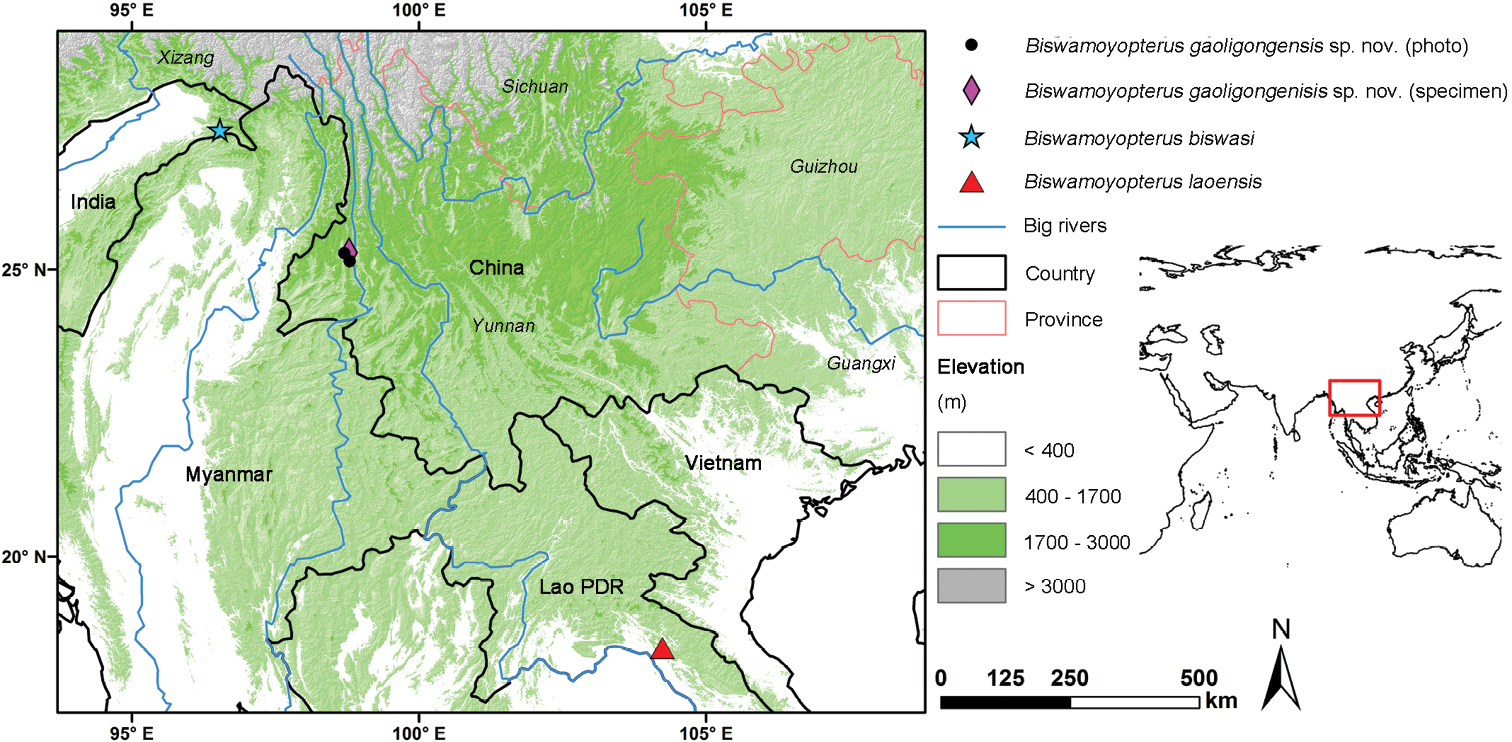 Known localities of three species of Biswamoyopterus.